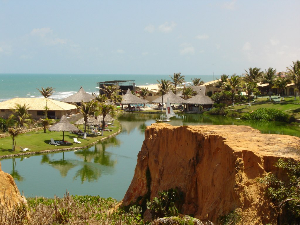 Beach located in Greater Fortaleza, Brazil.